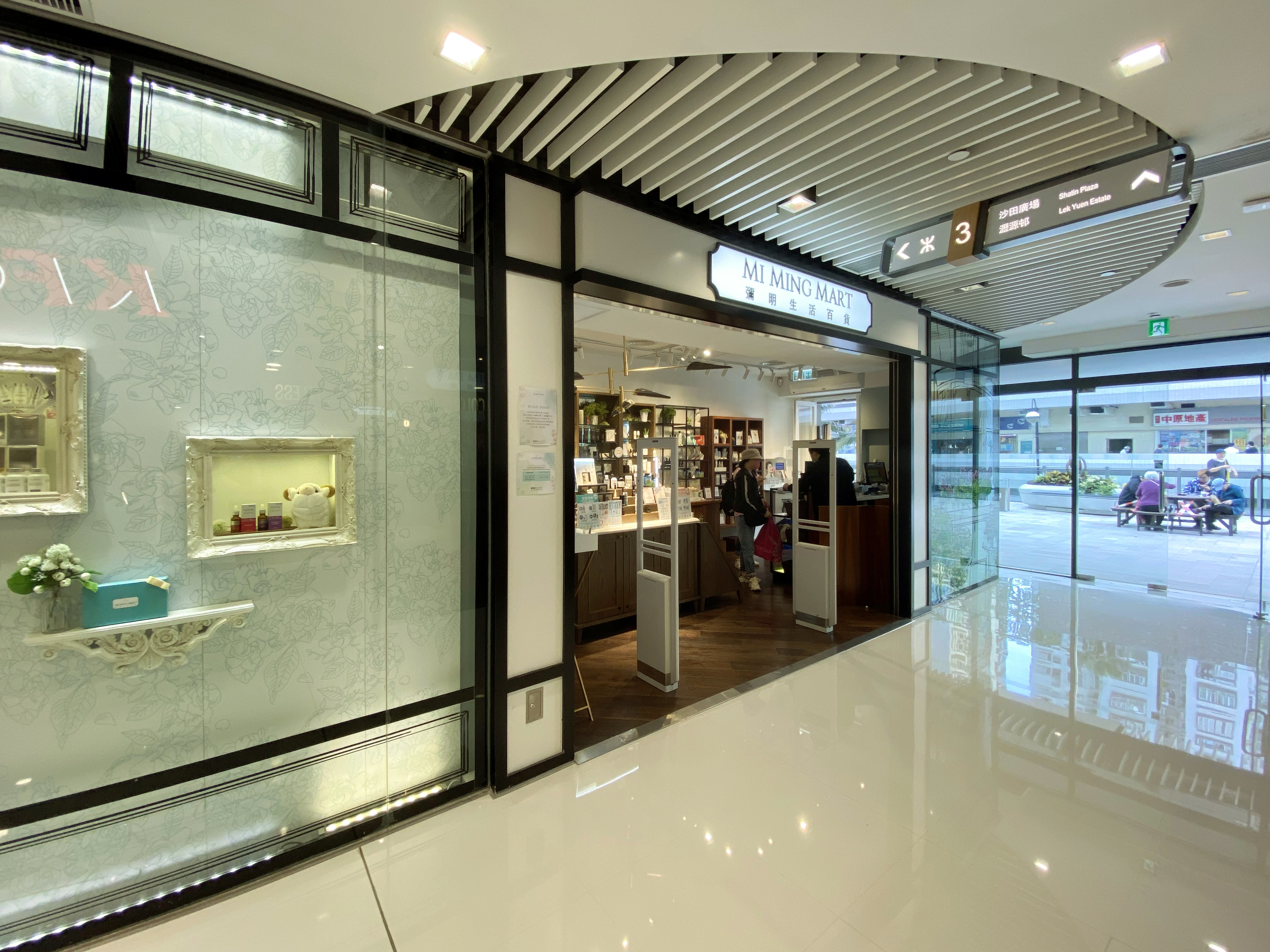 Mi Ming Mart in Shatin Centre